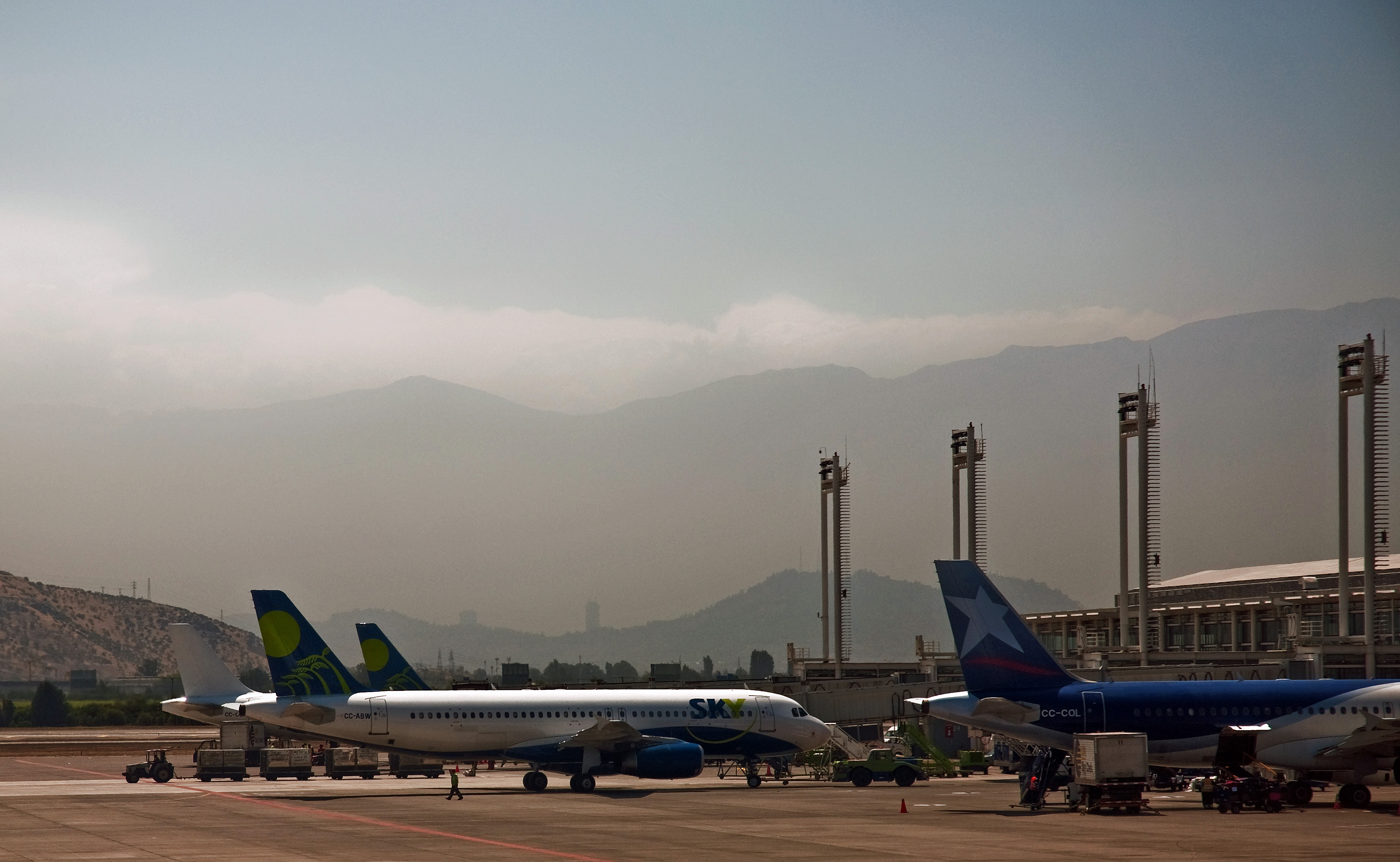 The ramp at Santiago de Chile, Dec. 2010